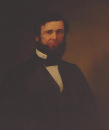 Portrait of William Medill, Governor of Ohio, hangs in room 108 of Ohio Statehouse. Oil on Canvas, 26 X 24 inches.